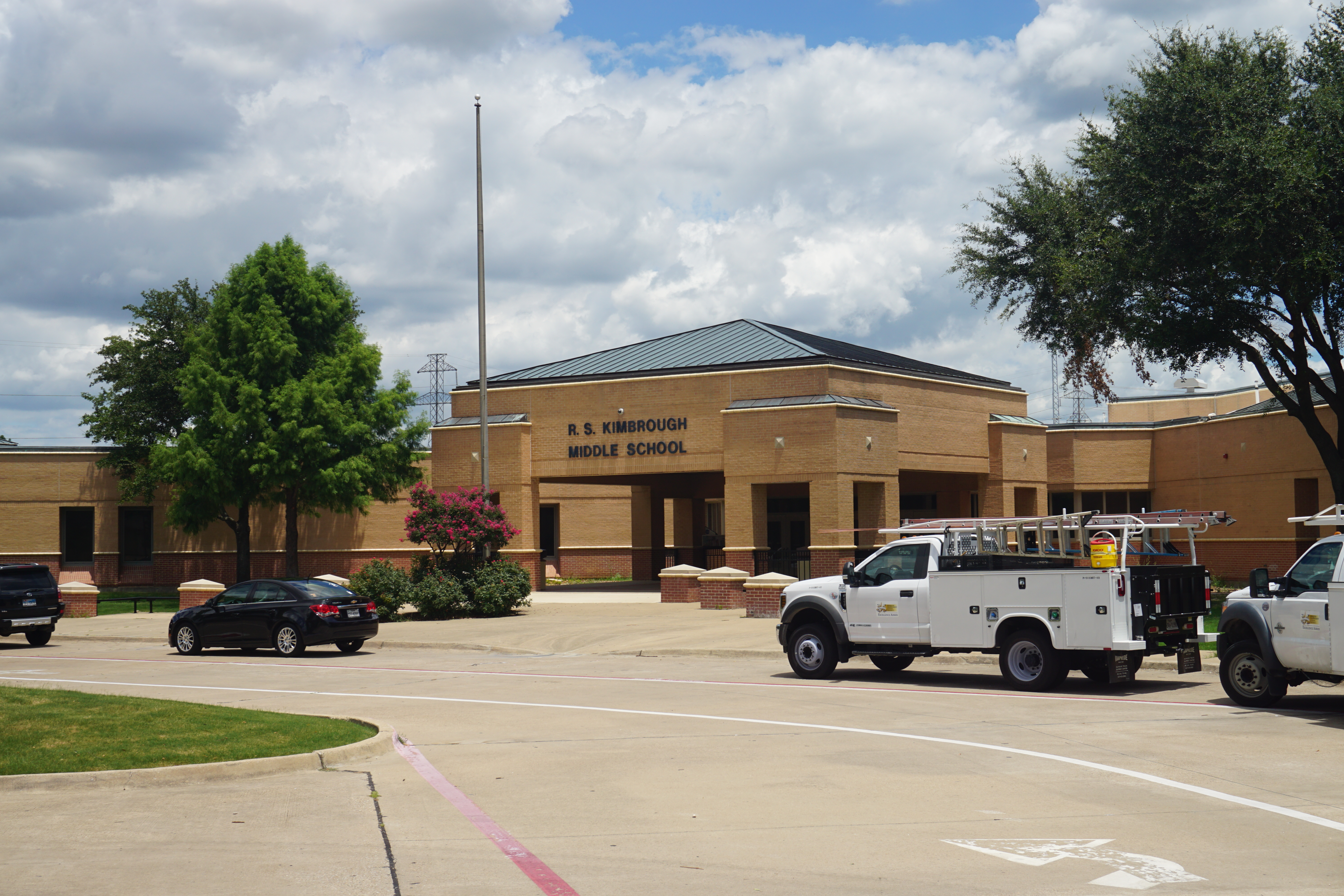 R. S. Kimbrough Middle School in Mesquite, Texas (United States).